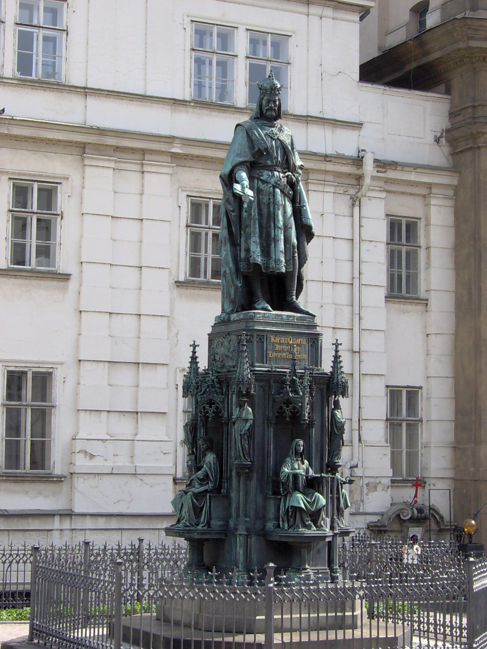 Statue of Charles IV., Holy Roman Emperor, in Křižovnické Square. A monument placed nearby Charles Bridge, Prague in 1848 to commemorate the 500th anniversary of establishing the University of Prague by Charles IV (women statues around the pedestal symbolize faculties of the university). It is an iron statue by Arnost Händel from Dresden.